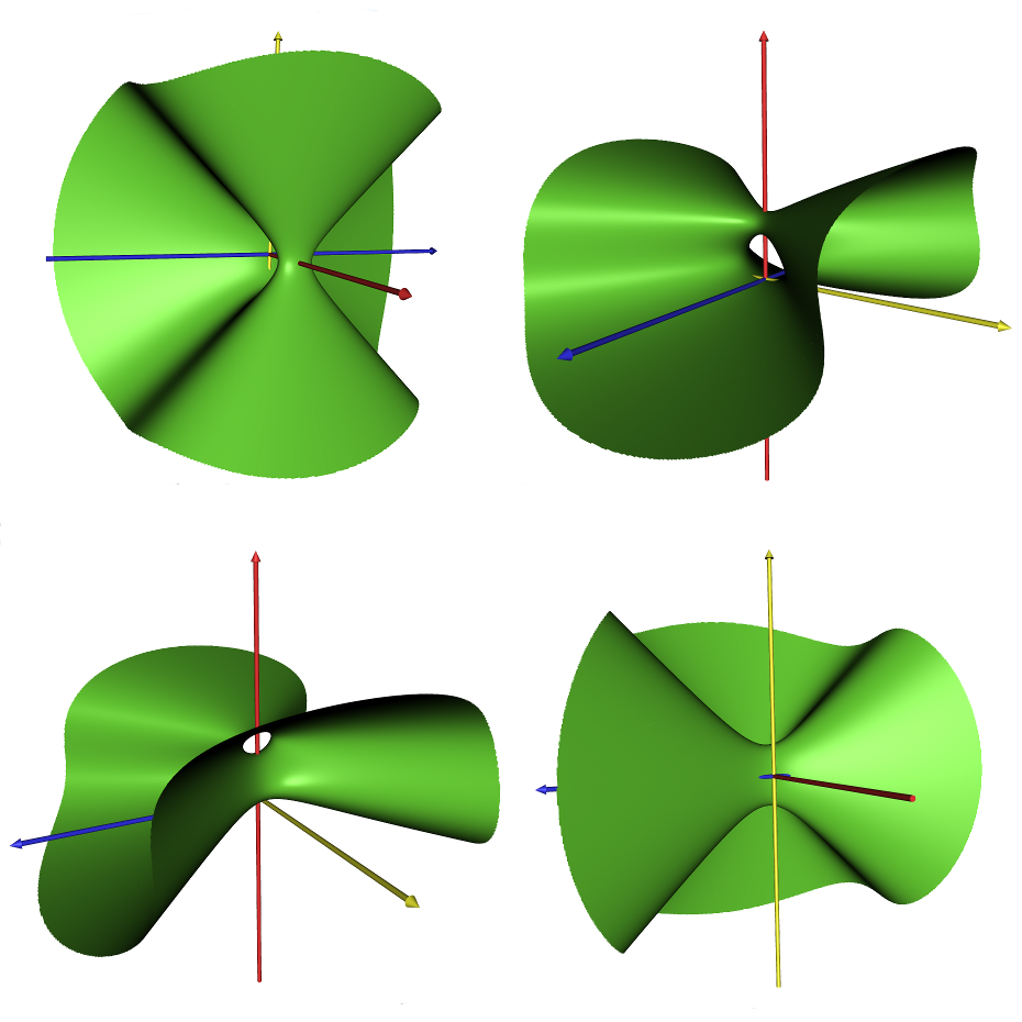 Châtelet surface. Some snapshots, with P(x)=x^3-5*x^2-6*x. Axis: x=red, y=yellow, z=blu